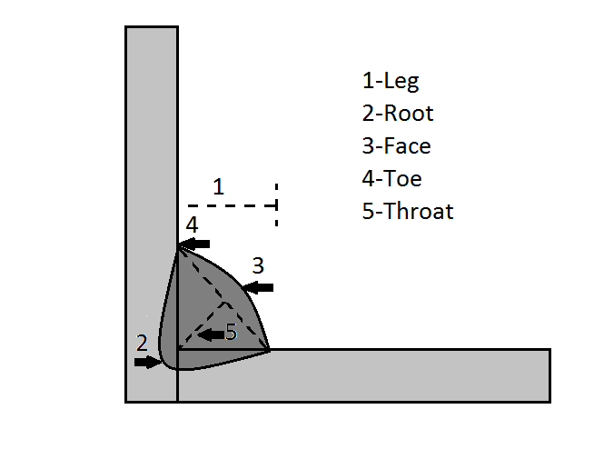 Picture provide a rough understanding for the parts of a fillet weld